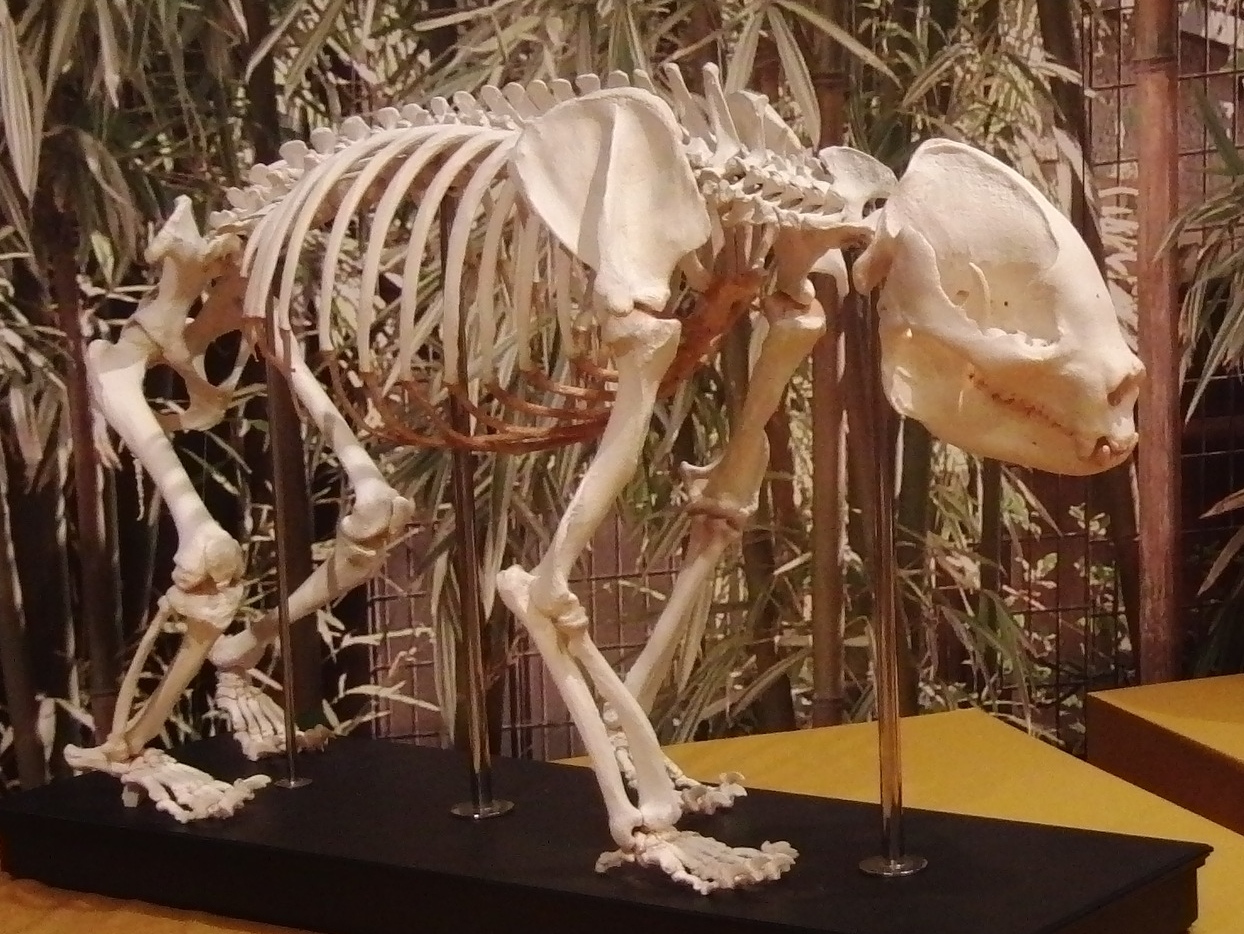 Skeleton of Giant Panda named "Tong Tong", bred once in the Ueno Zoo, Tokyo, Japan. Exhibition in the National Museum of Nature and Science, Tokyo, Japan. Exhibited in Planned Exhibition "Kahaku Specimen Zoo".